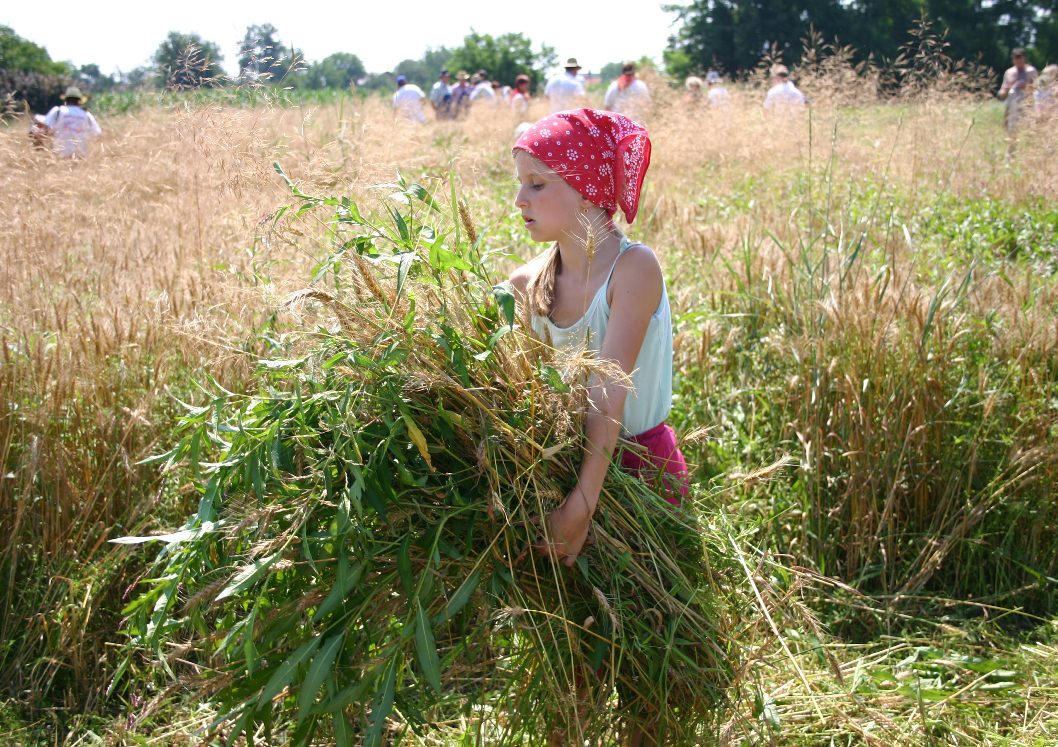 Young reaper